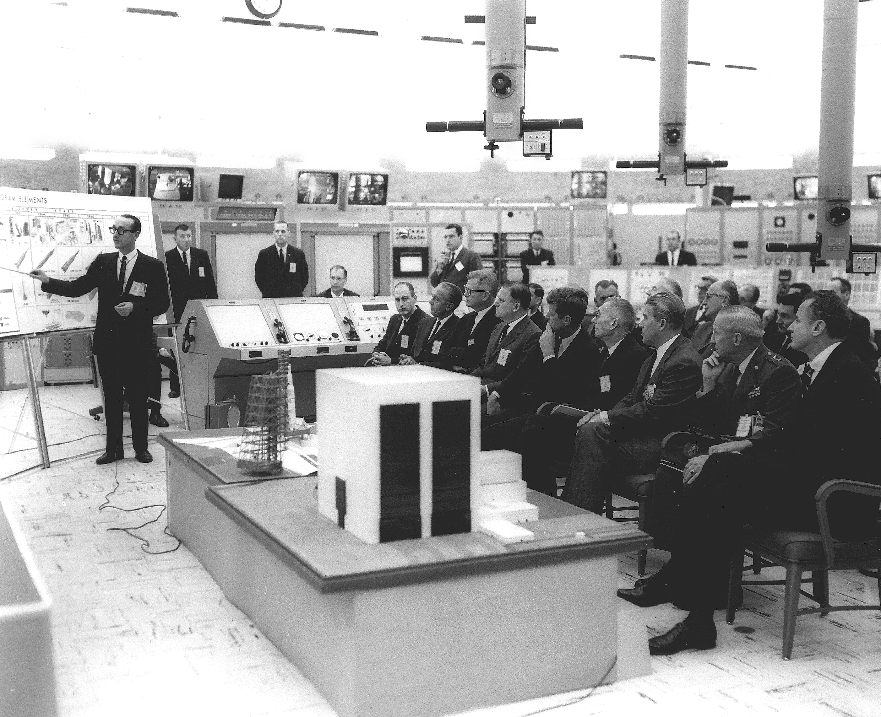 Dr. George Mueller gives Saturn V orientation to President John F. Kennedy and officals in Blockhouse 37. Front row, left to right: George Low, Dr. Kurt Debus, Dr. Robert Seamans, James Webb, President Kennedy, Dr. Hugh Dryden, Dr. Wernher von Braun, General Leighton Davis, and Senator George Smathers.